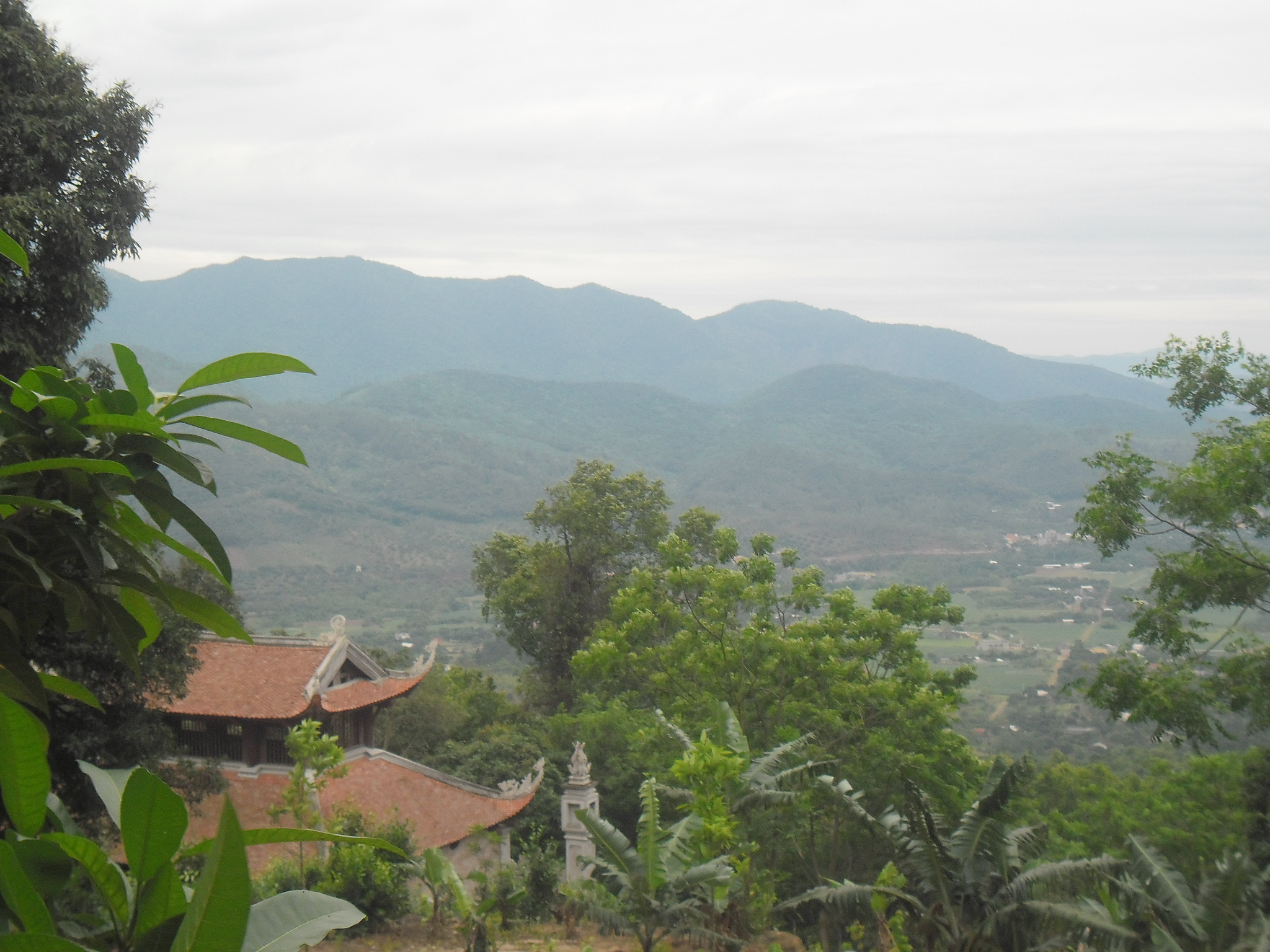 View from the gate of Thanh Mai Buddhist temple in Chi Linh, Hai Duong, Vietnam